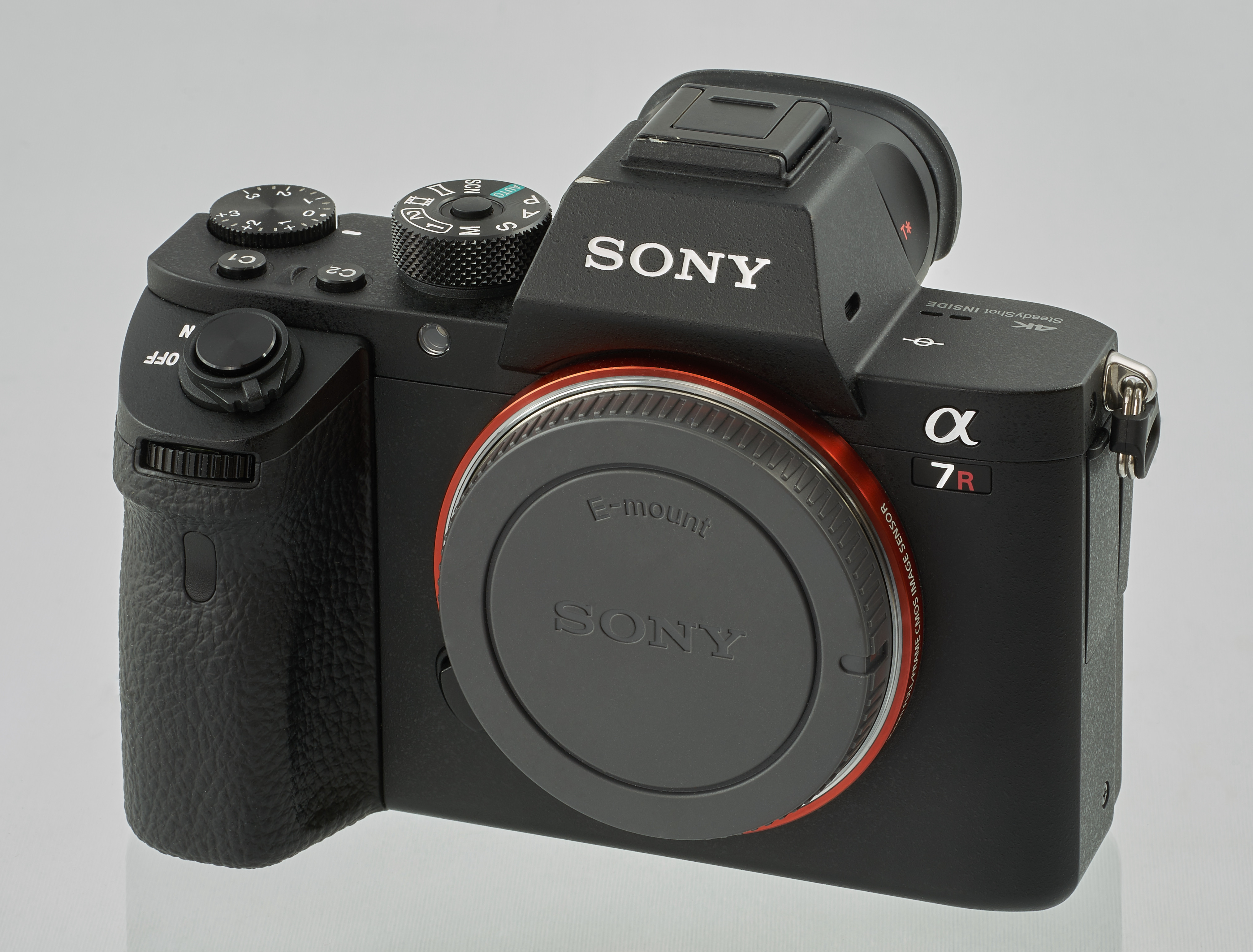 Sony A7RII camera The making of this document was supported by the Community-Budget of Wikimedia Germany.